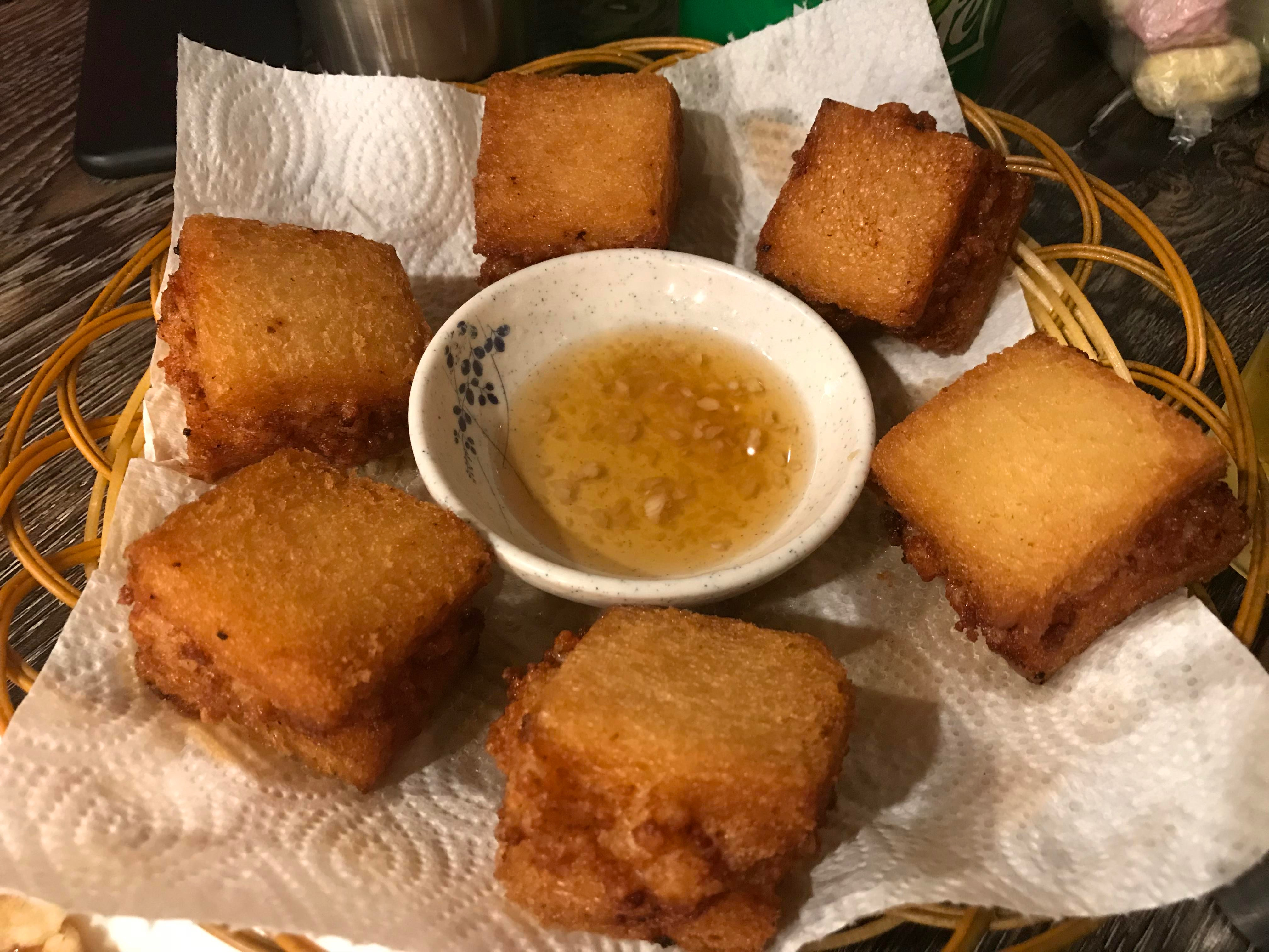 Menbosya (shrimp toasts)